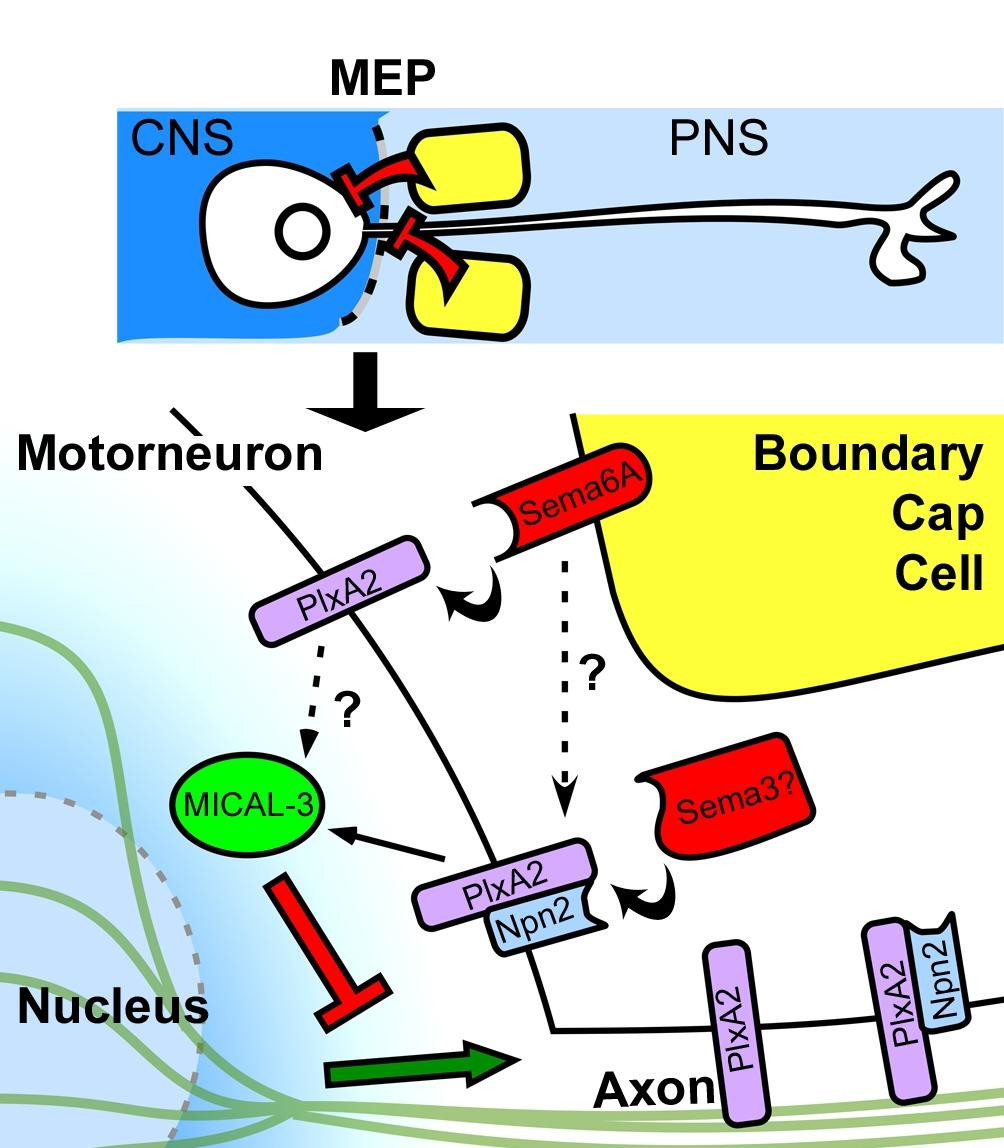 Summary of the pathways in motor neurons implicated in mediating a BC cell derived repellent signal that stops somal migration. Boundary cap cells (yellow) located at the MEP express repellent signals (red) that act either directly on motor neuron cell bodies or retrogradely via their axons to disengage somal migration from axon extension. Our data suggest that these signals comprise a combination of class 3 semaphorins and Sema6A (red). Plexin-A2 (purple) expressed by the motor neurons can function as a dual receptor for class 3 and class 6 semaphorins, the former in conjunction with Npn-2 (blue). In this scheme, MICAL3 (green), by linking Plexin-A to the cytoskeleton, is a key downstream mediator of the somal stabilising signal. As a result of cytoskeletal re-organisation, the force (green arrow) exerted from the axonal growth cone that leads to somal translocation in migrating neurons is disrupted. Bron et al. Neural Development 2007 2:21